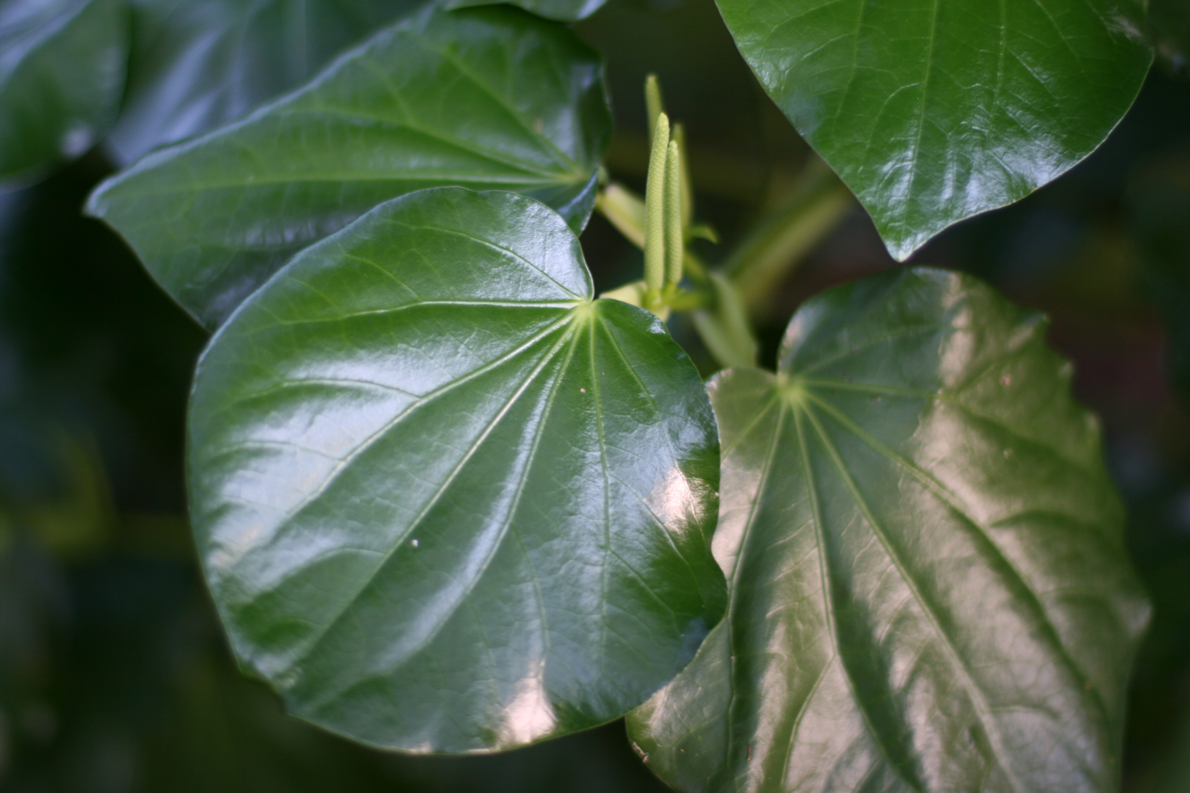 Macropiper excelsum, Kawakawa tree, Auckland, New Zealand.